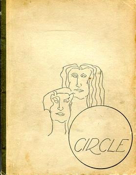 Cover of 1st issue of Circle Magazine, 1944